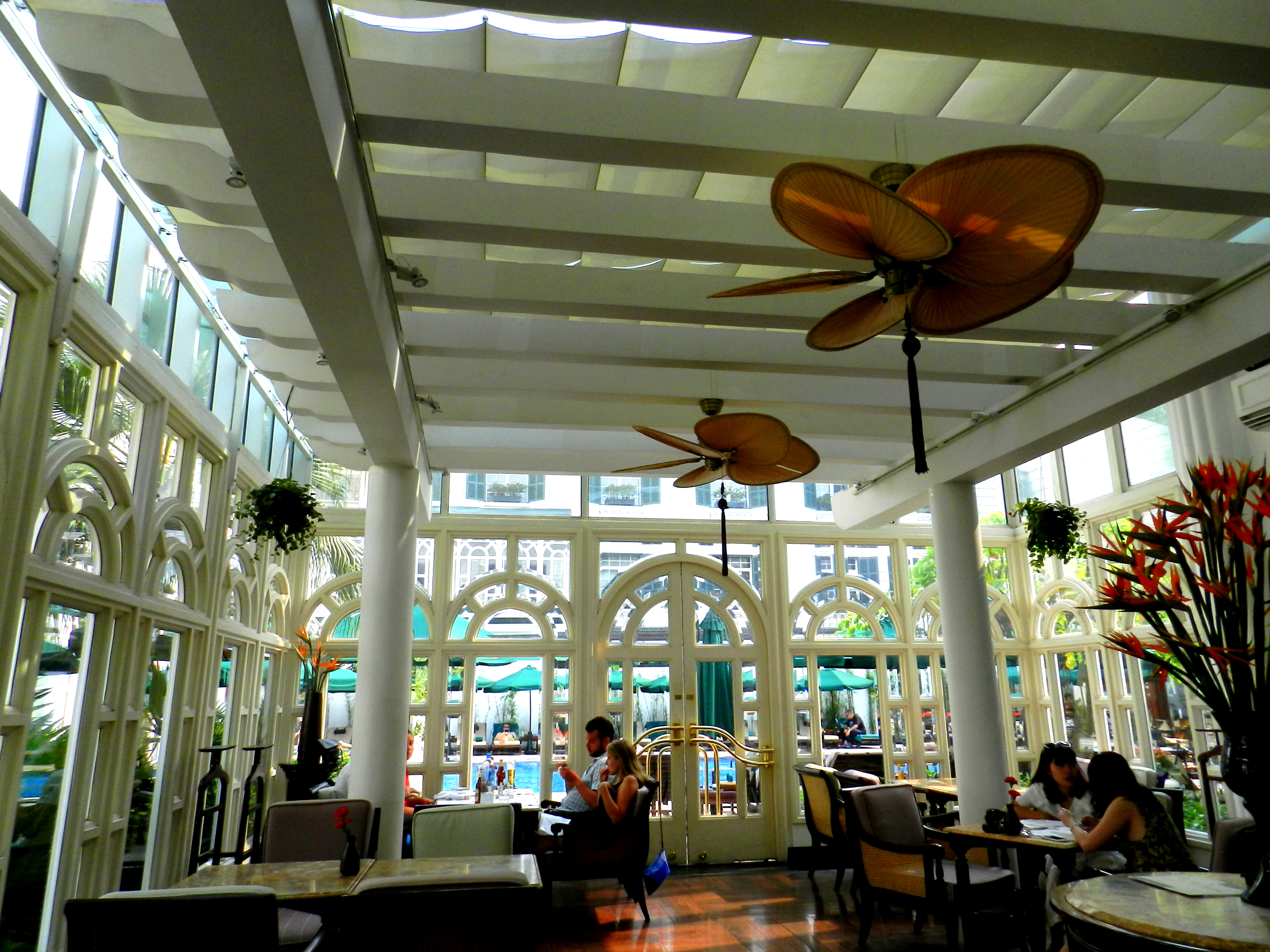 Lounge bar Metropole Hotel, Hanoi